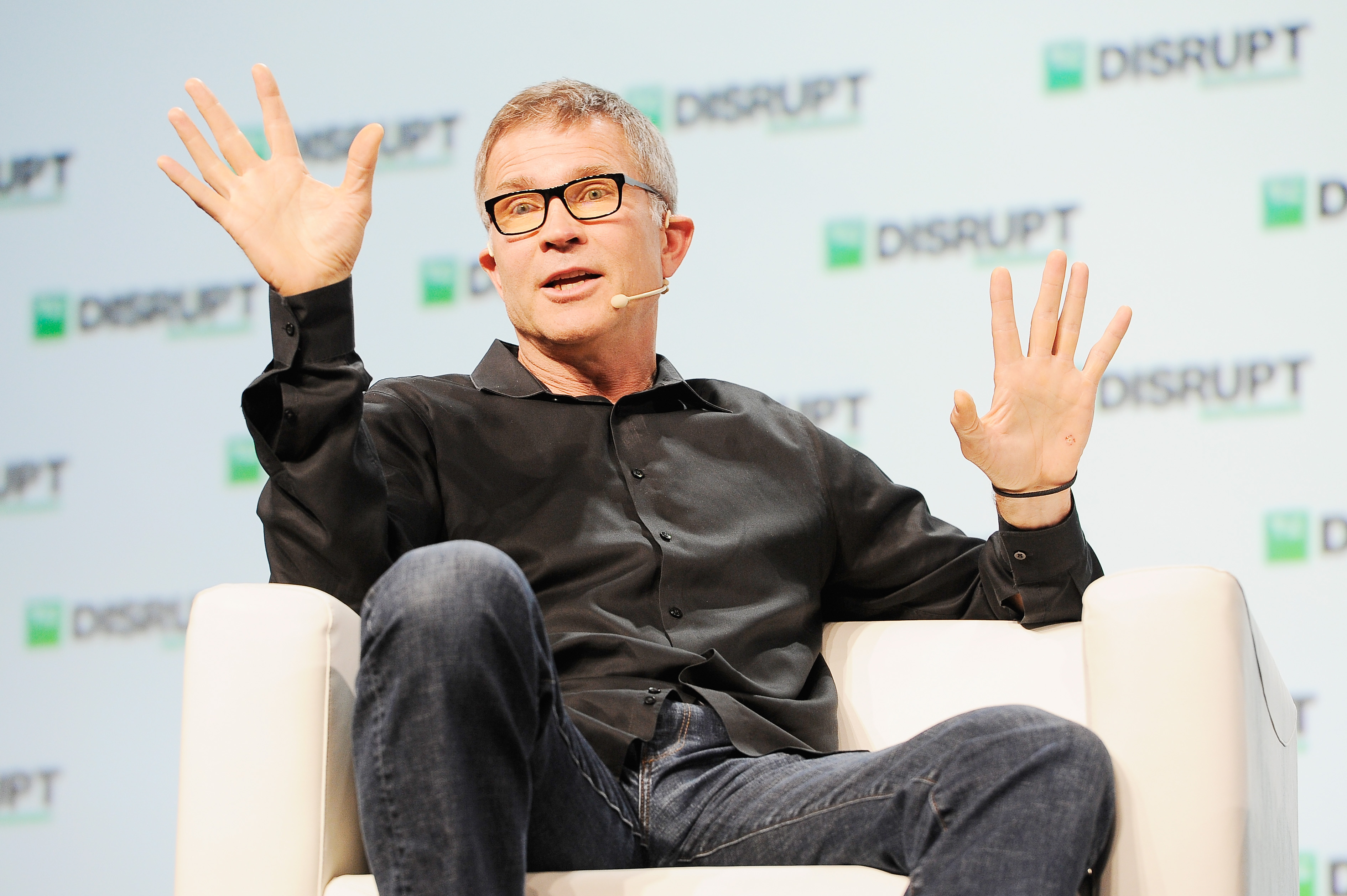 SAN FRANCISCO, CA - SEPTEMBER 05: Roblox Corporation Founder and CEO David Baszucki speaks onstage during Day 1 of TechCrunch Disrupt SF 2018 at Moscone Center on September 5, 2018 in San Francisco, California. (Photo by Steve Jennings/Getty Images for TechCrunch)